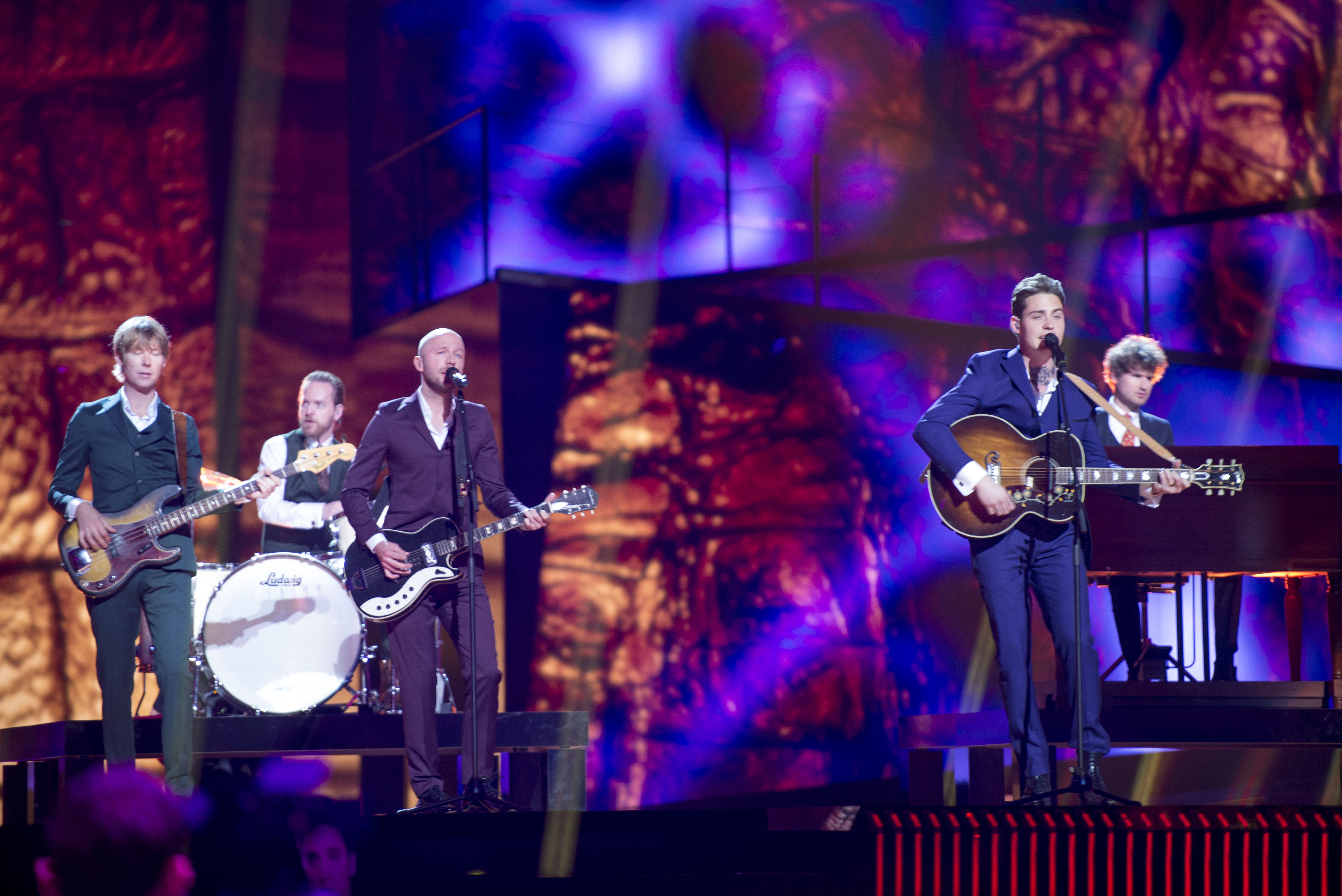 Douwe Bob representing Netherlands with the song "Slow Down" during a rehearsal before the first semi final of the Eurovision Song Contest 2016 in Stockholm. (Help translate this text)